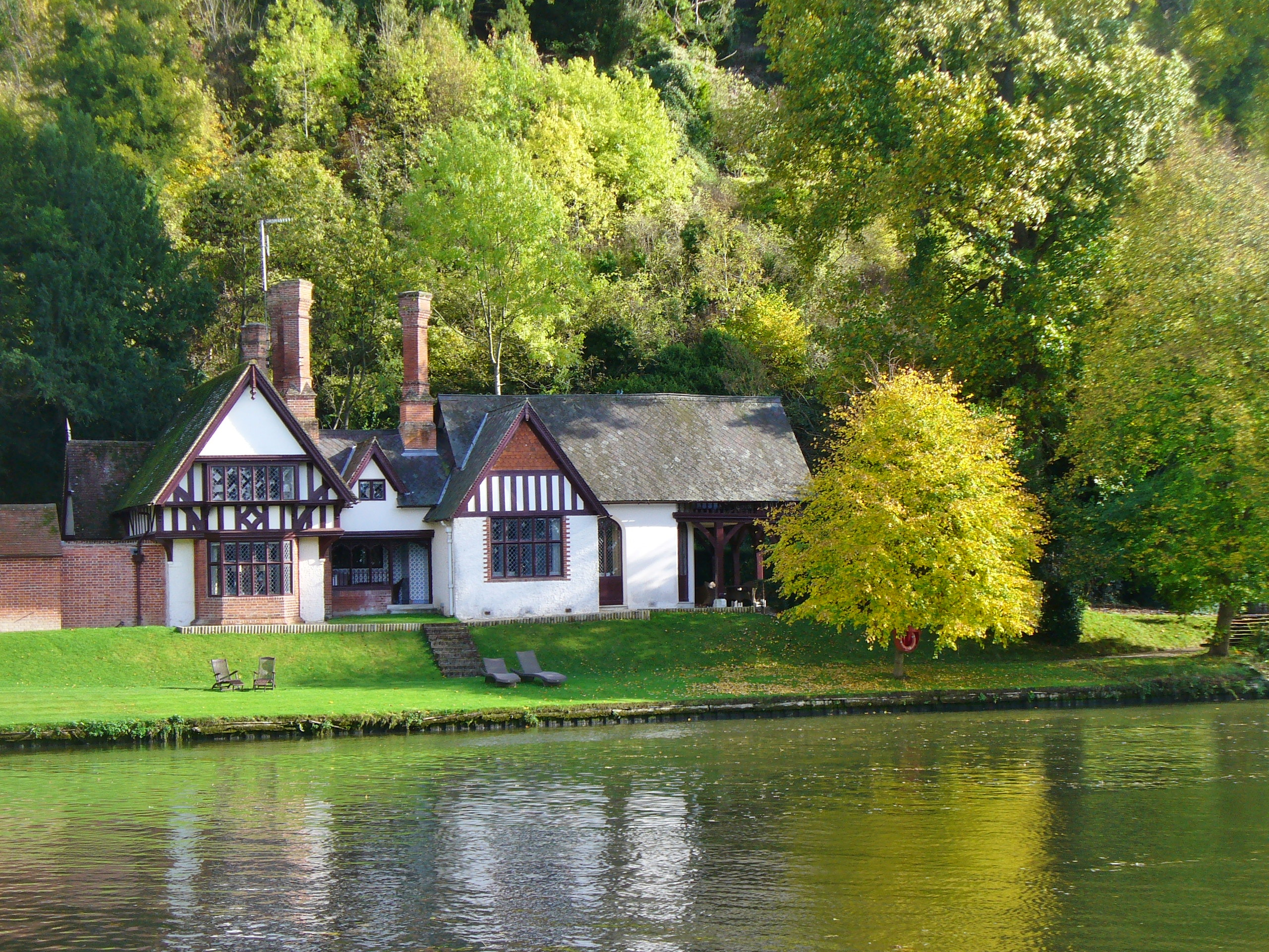 See title.